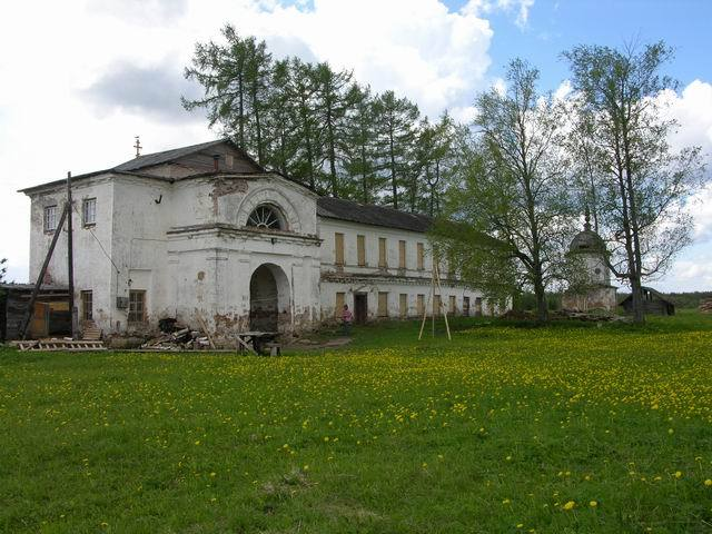 Kargopol (Russia), Alexandro-Oshevensky Monastery, Nikolskaya Church.